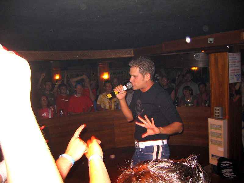 Peter Wackel